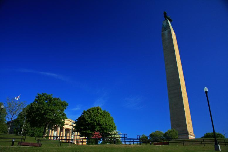 McDonough Monument with Plattsburgh, NY City Hall in the background.